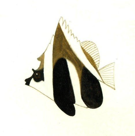 Heniochus pleurotaenia. Tempera on paper